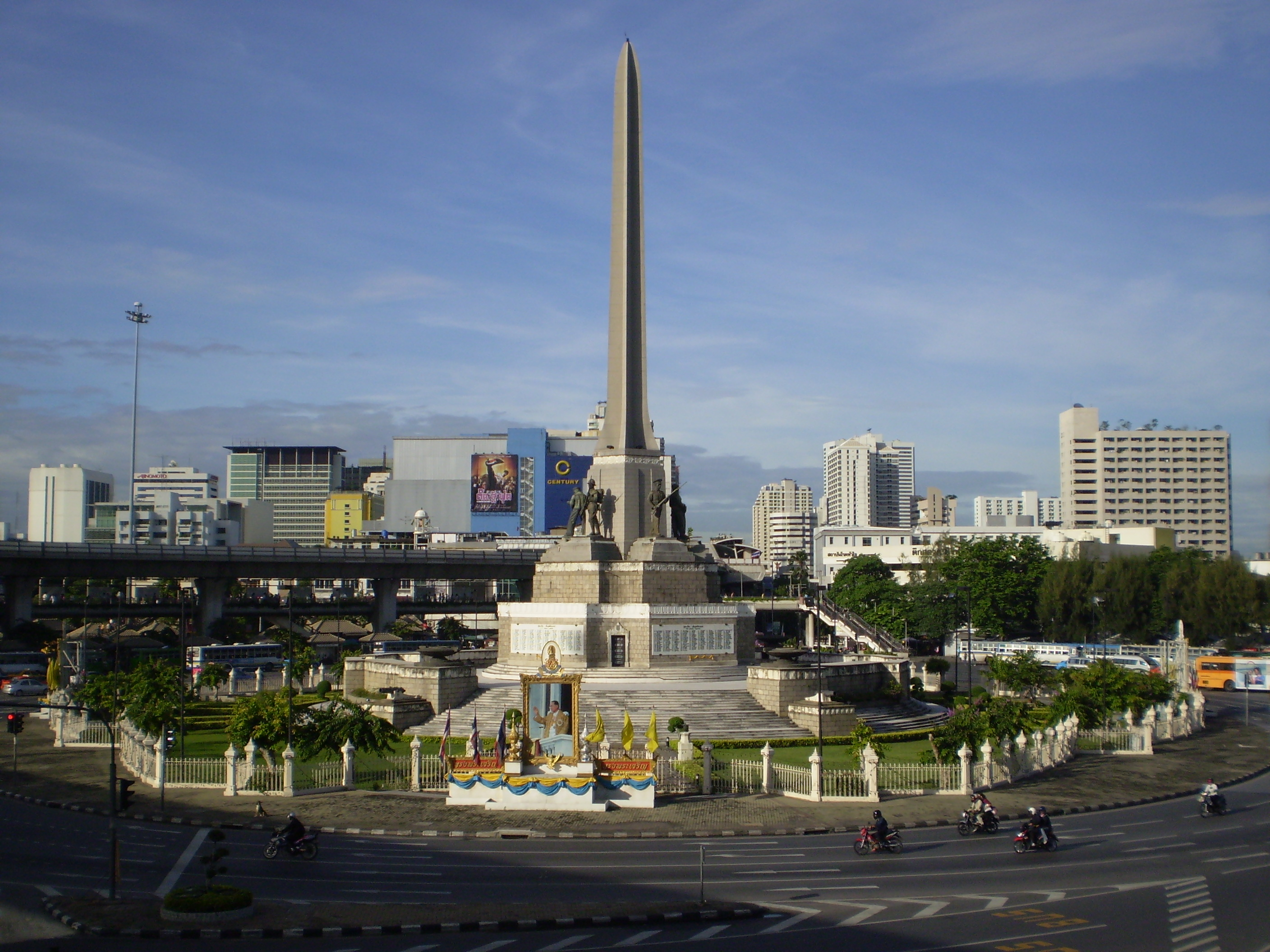 Victory Monument, Bangkok, Thailand